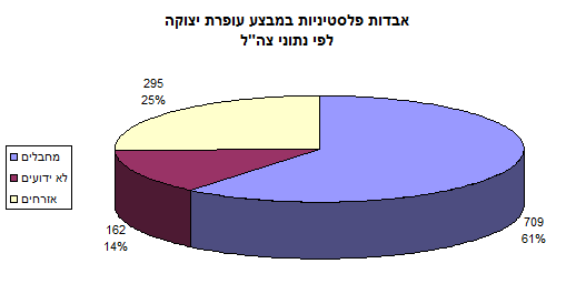 Palestinian casualties breakdown in Operation Cast Lead according to IDF figures [1]